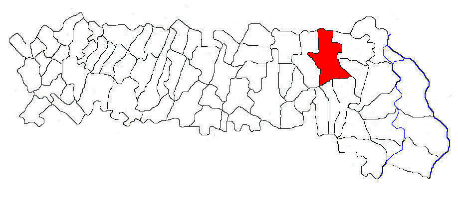 Map with limits of commune